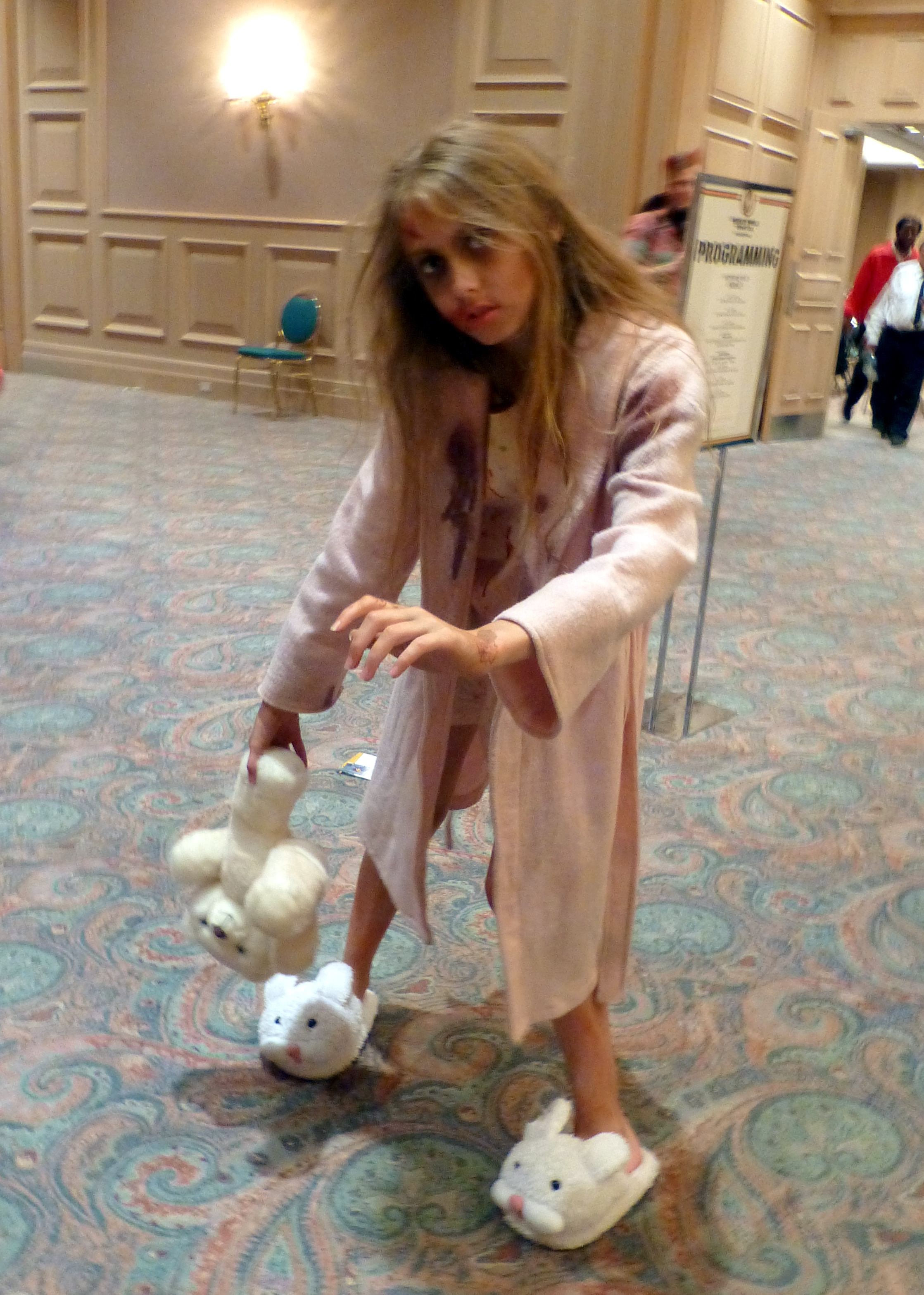 Cosplay at the 2014 Wizard World Chicago.